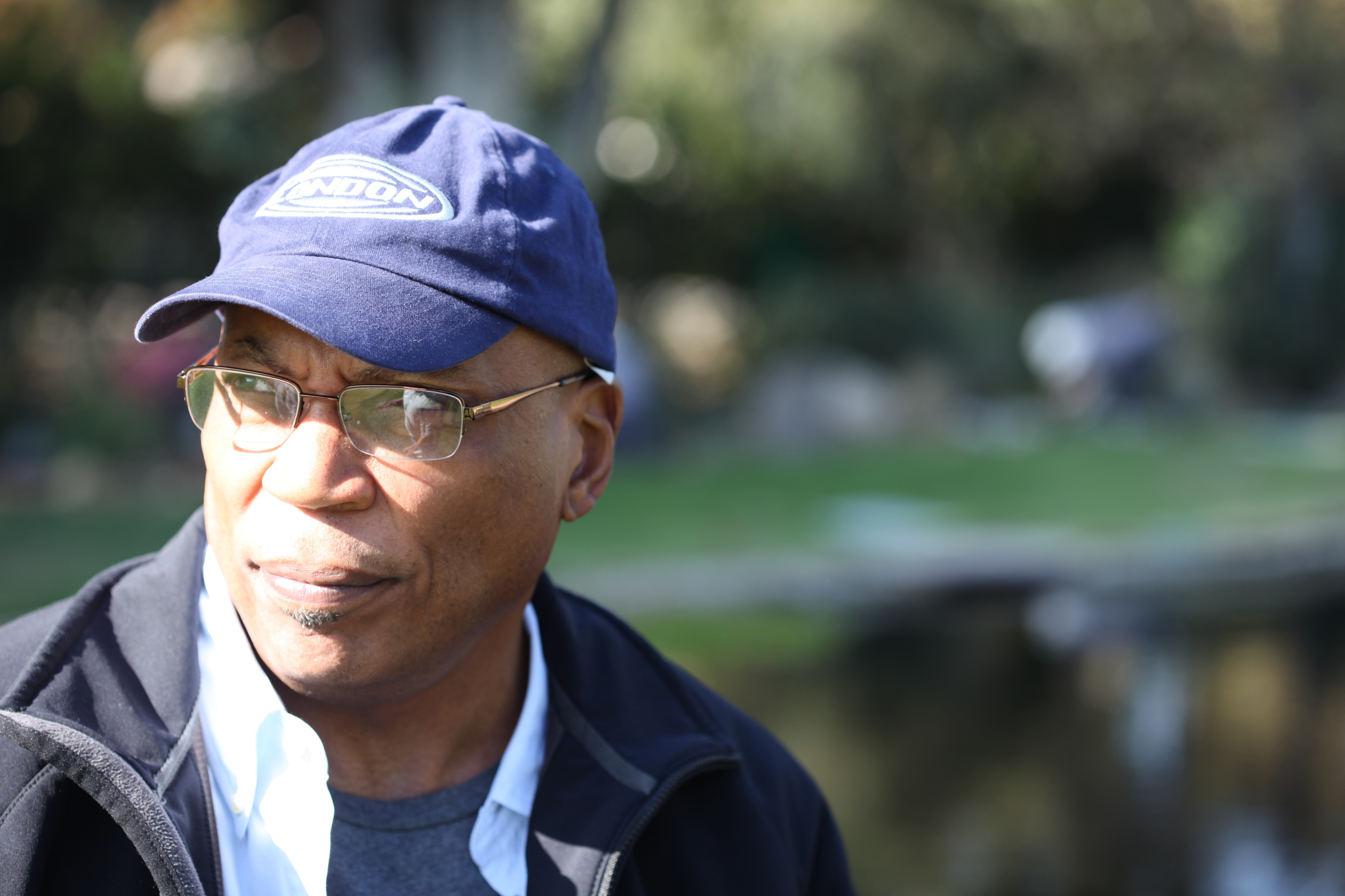 Paris Barclay at Warner Bros. backlot.